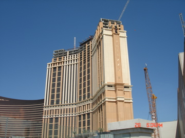 Photo shot of the Palazzo construction on July, 2007.